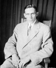 Mel Sheppard, US runner, Olympic champion